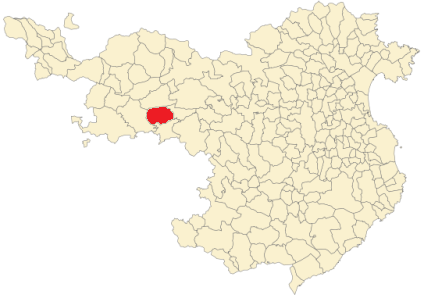 Vallfogona del Ripollés